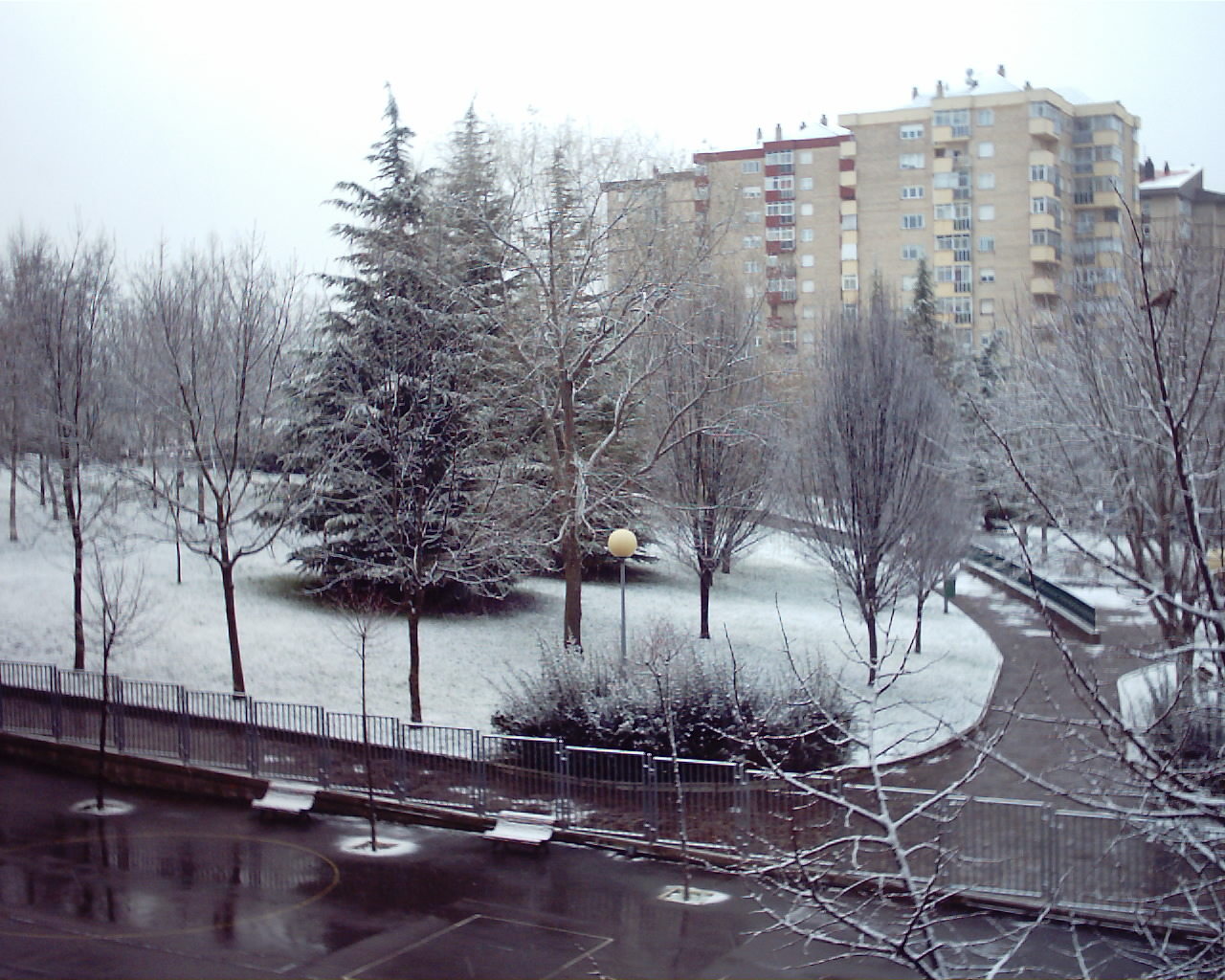 Photo from Santa Lucía neighborhood on Vitoria (Spain) Author: Yrithinnd